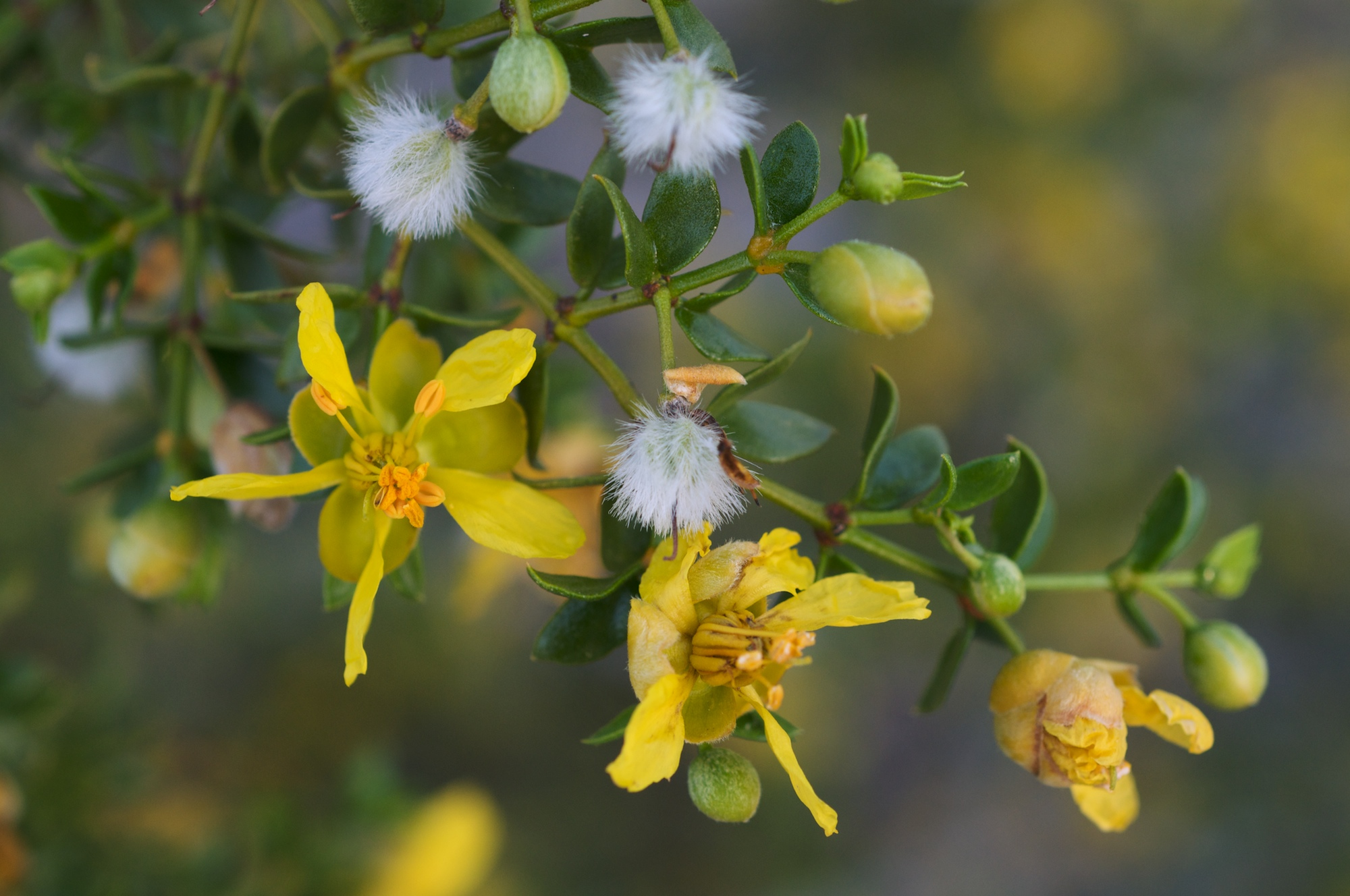 Common name: Creosote Bush Species from North America Photographed along the edge of the overflow camping section of the Sunset Campground, Furnace Creek, Death Valley National Park, California